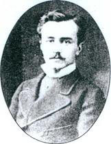 Abdülhak Hâmid Tarhan in his youth